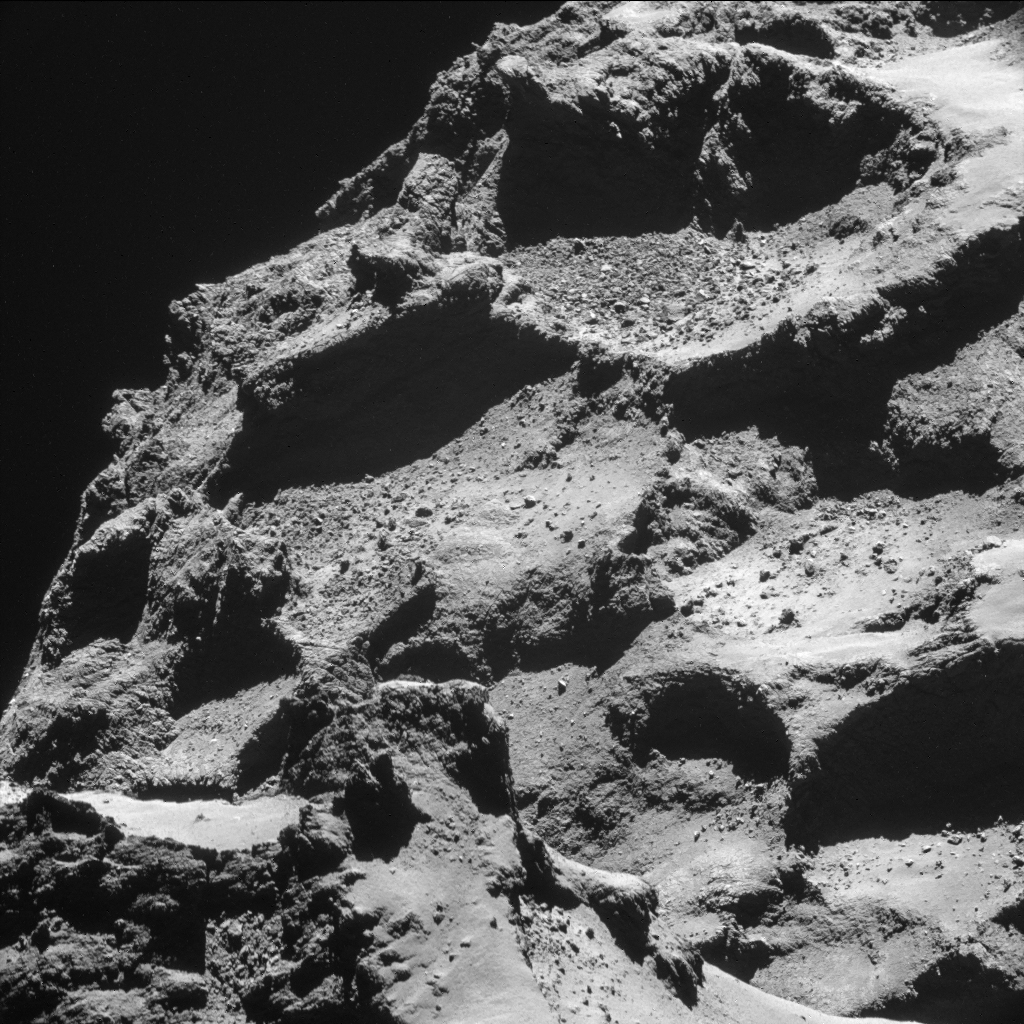 ESA’s comet-chasing Rosetta mission spent much of the second half of October orbiting Comet 67P/Churyumov–Gerasimenko at less than 10 km from its surface. This selection of previously unpublished ‘beauty shots’, taken by Rosetta’s navigation camera, presents the varied and dramatic terrain of this mysterious world from this close orbit phase of the mission. Some light contrast enhancements have been made to emphasise certain features and to bring out features in the shadowed areas. In reality, the comet is extremely dark -– blacker than coal. The images, taken in black-and-white, are grey-scaled according to the relative brightness of the features observed, which depends on local illumination conditions, surface characteristics and composition of the given area. Some slight vignetting can also be seen in the corners of some images.